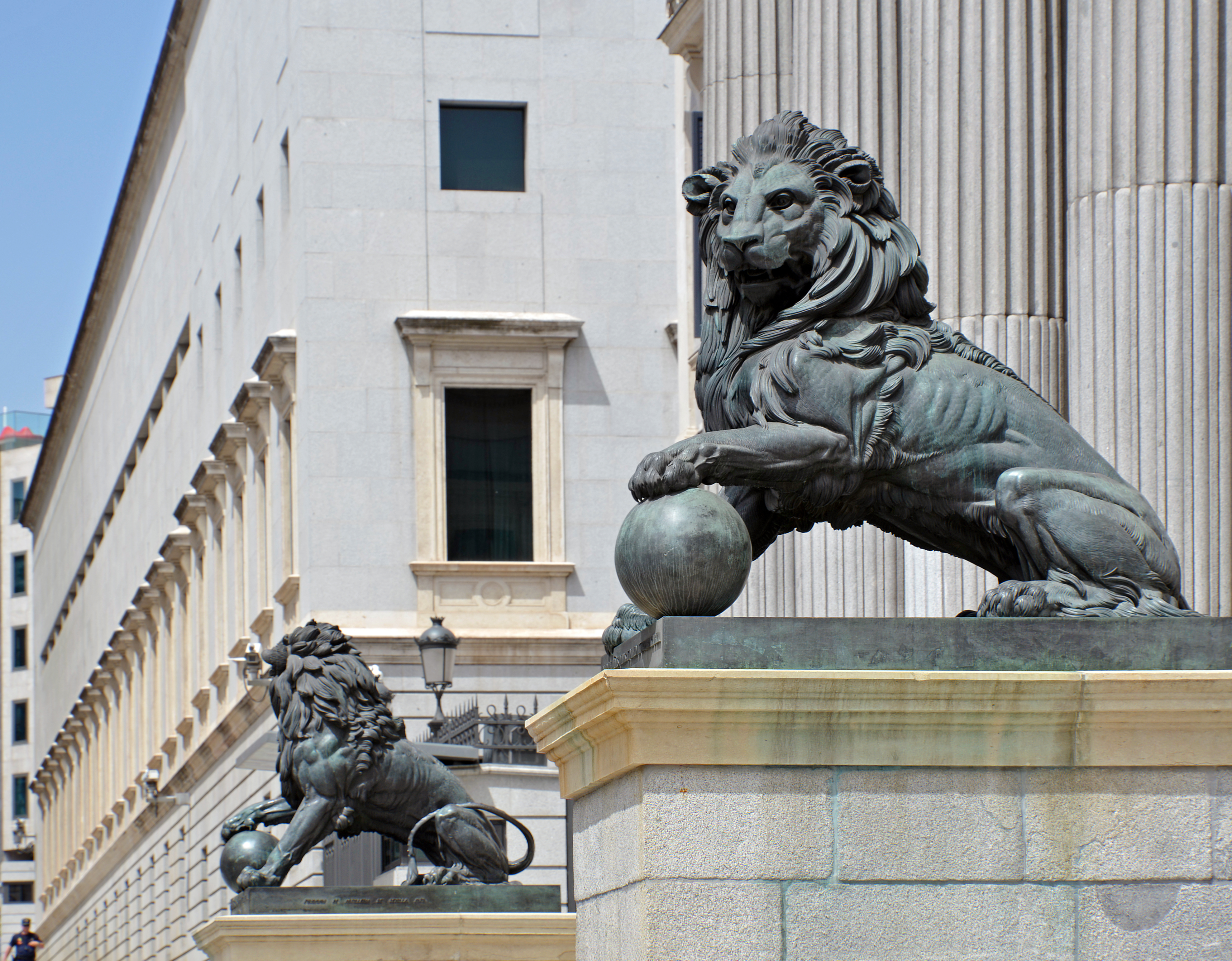 Statues of lions at the Congress of Deputies of Spain (Spain) - Madrid, Spain